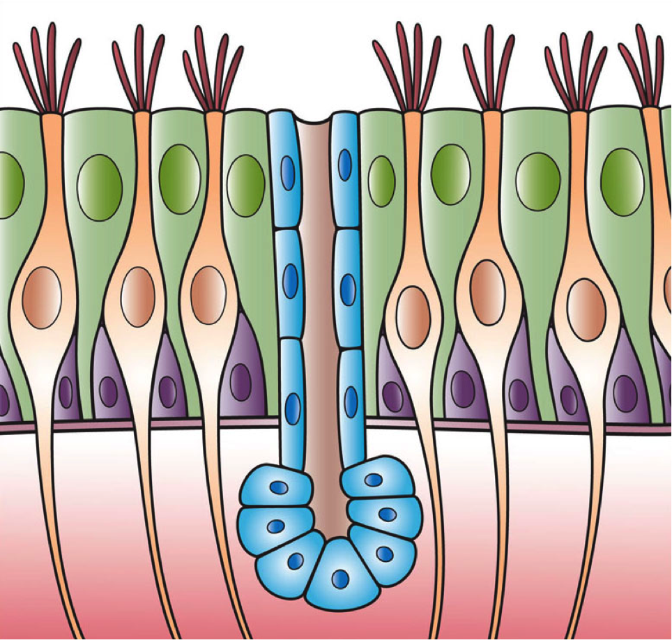 This image shows the cells and structures of the respiratory tract.